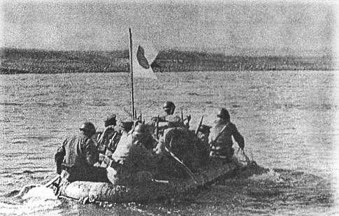 Japanese soldiers cross Khalkhyn Gol river, 1939